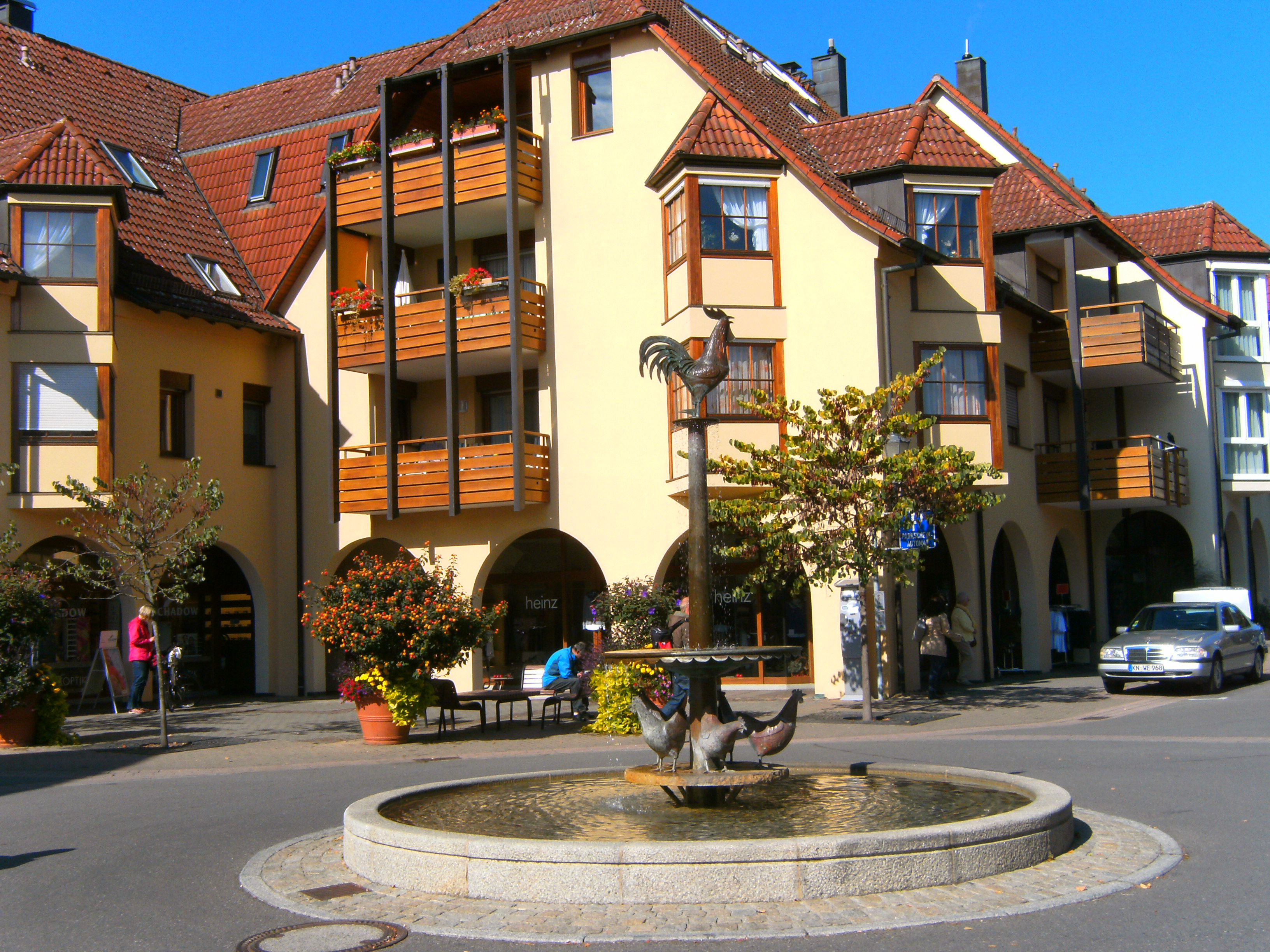 Immenstaad am Bodensee, Germany: Hennenschlitter-Brunnen (fountain). To remember a tale from frozen Lake Constance.